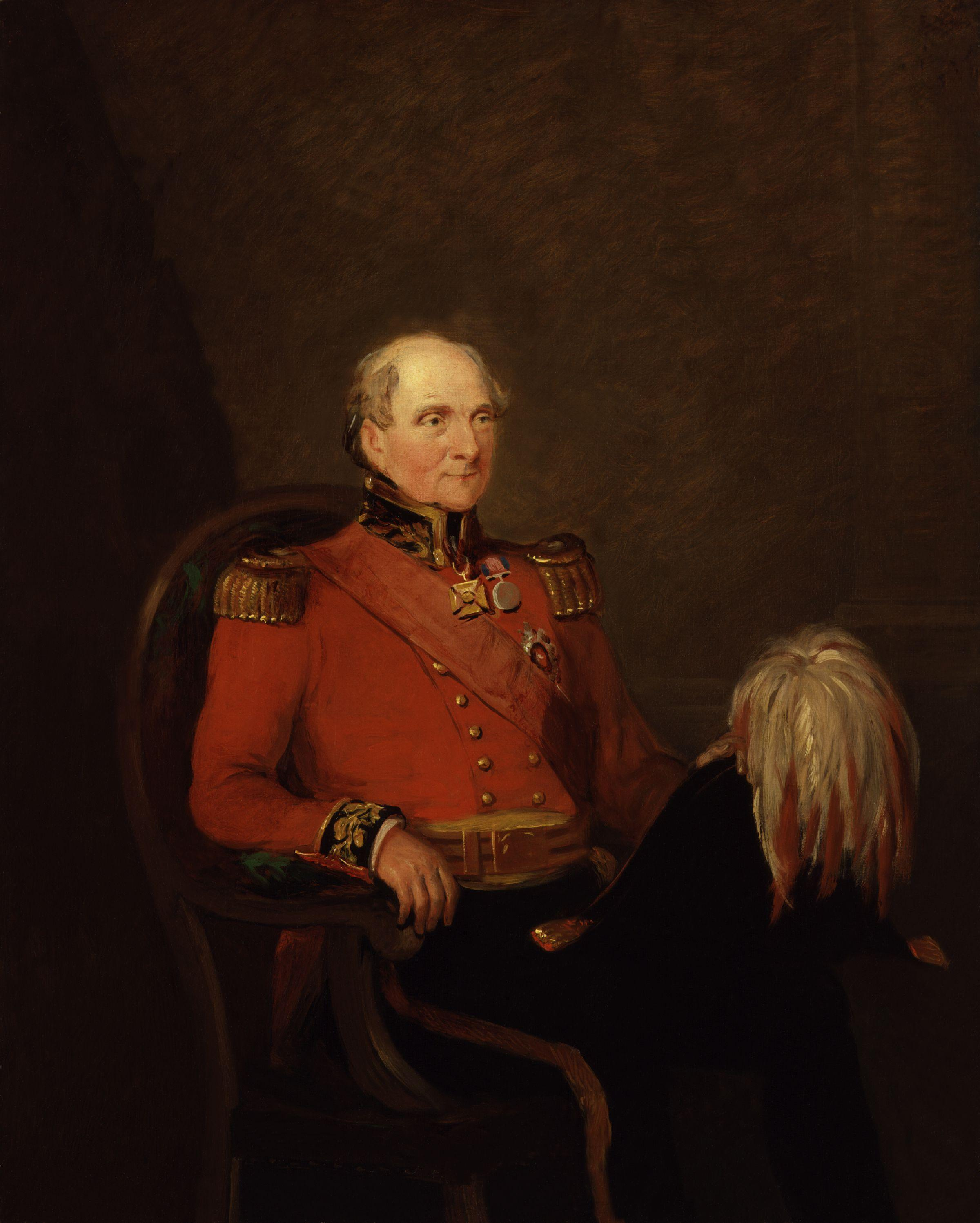 Rowland Hill, 1st Viscount Hill, by William Salter (died 1875). All images in this batch have been confirmed as author died before 1939 according to the official death date listed by the NPG.